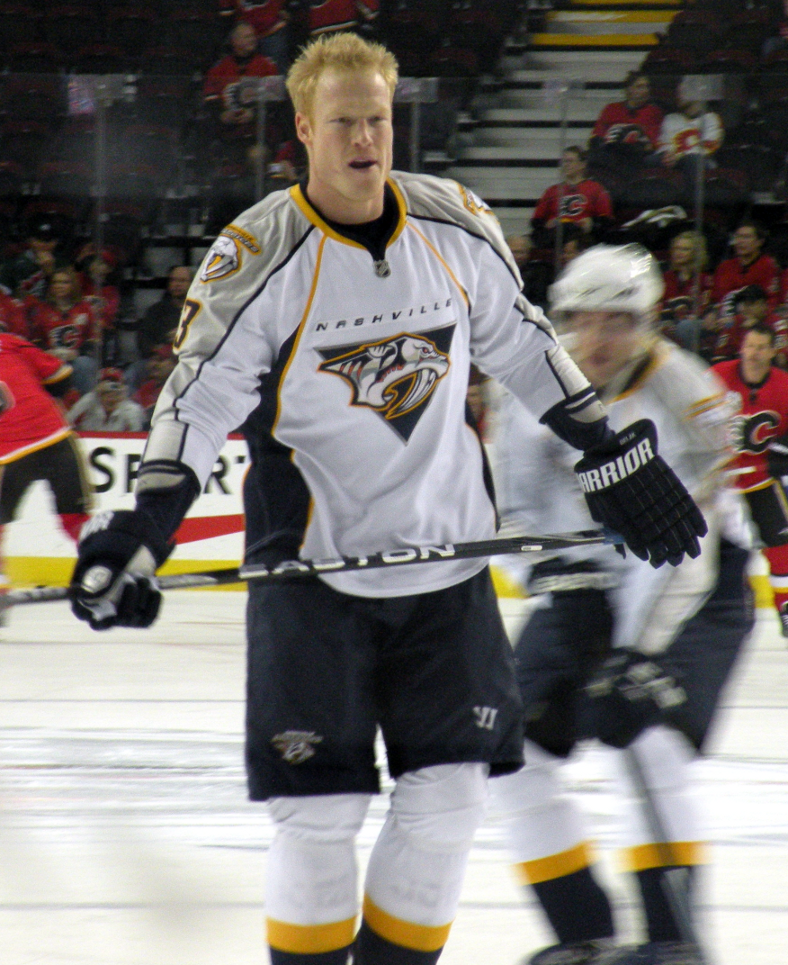 Nashville Predators forward Wade Belak prior to a National Hockey League game against the Calgary Flames.